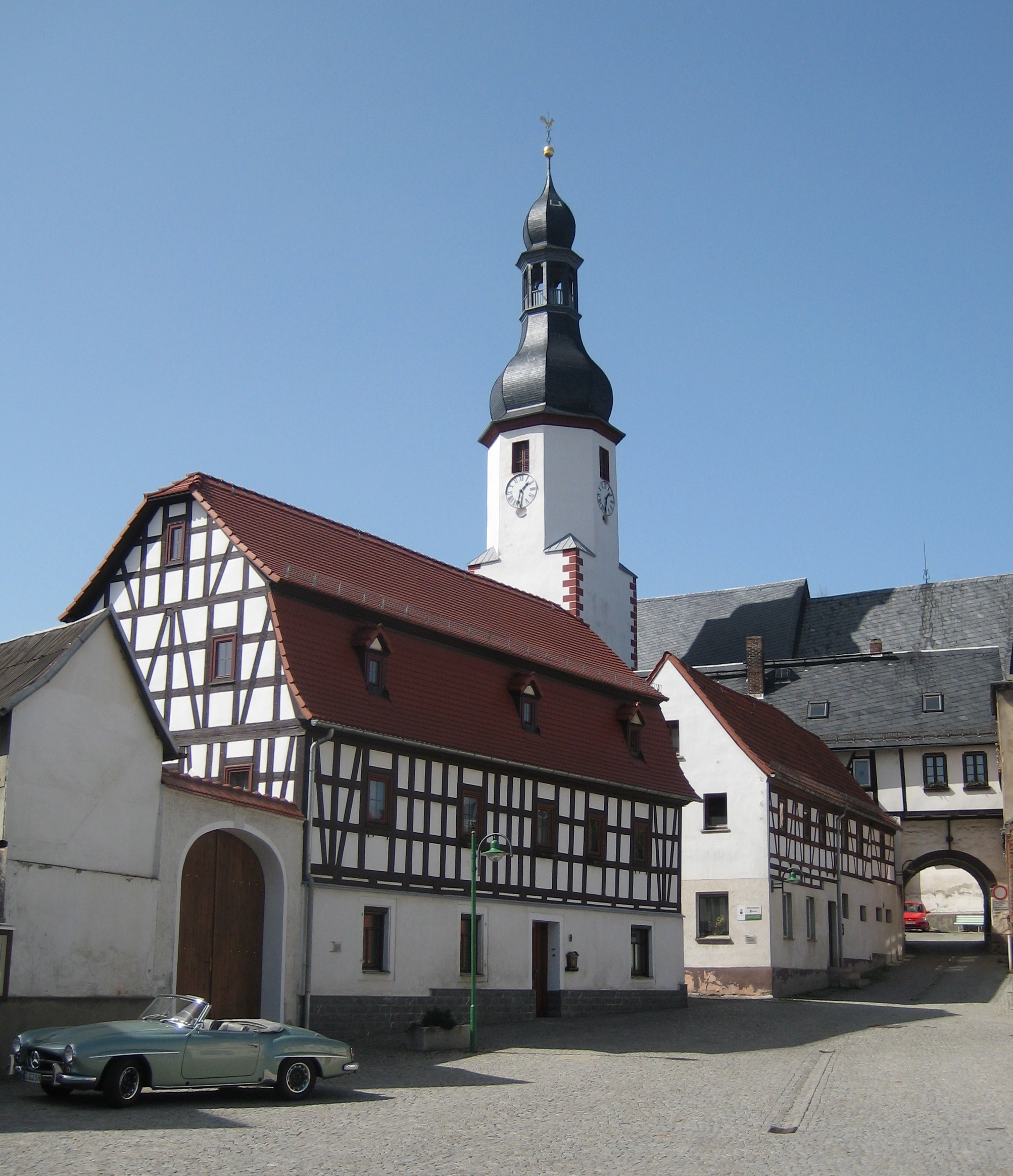 View at the historic Neumarker Market with church in the background.